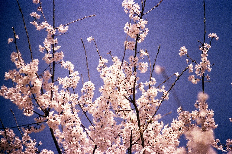 Sakura Tokyo March 2015